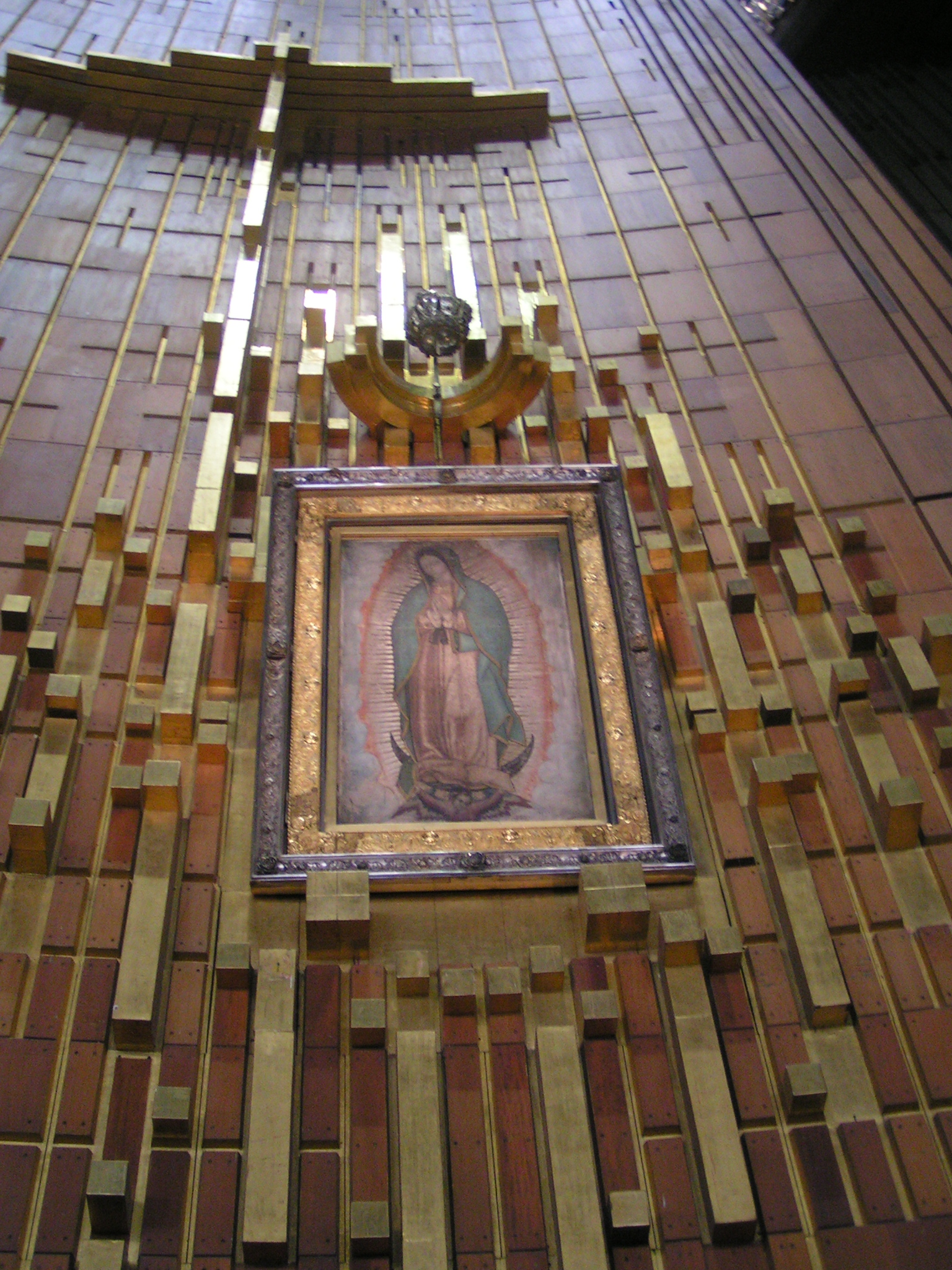 Description: Our Lady of Guadalupe, Mexico City Source: Picture taken by Jan Zatko, March the 16th, 2005